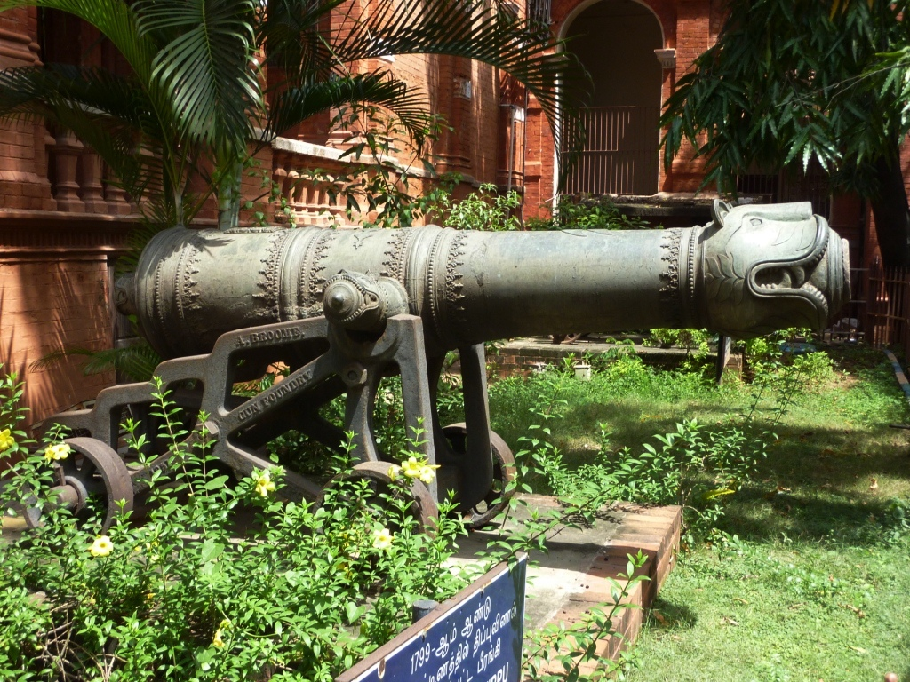 This cannon was used in the battle of Seringapatam by Tippu Sultan's forces in 1799.